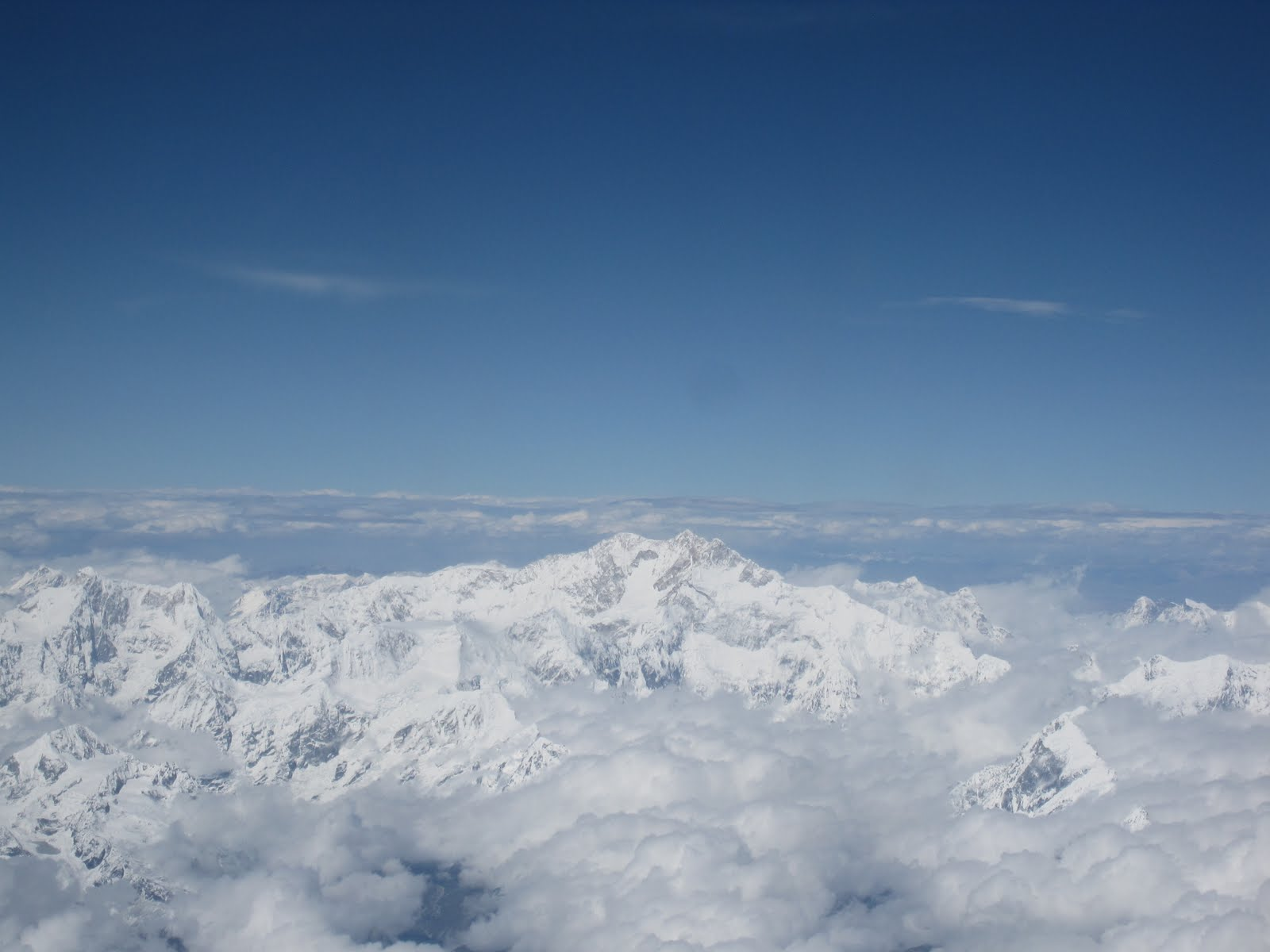 Over the Himalayas to Nepal: Kangchenjunga.